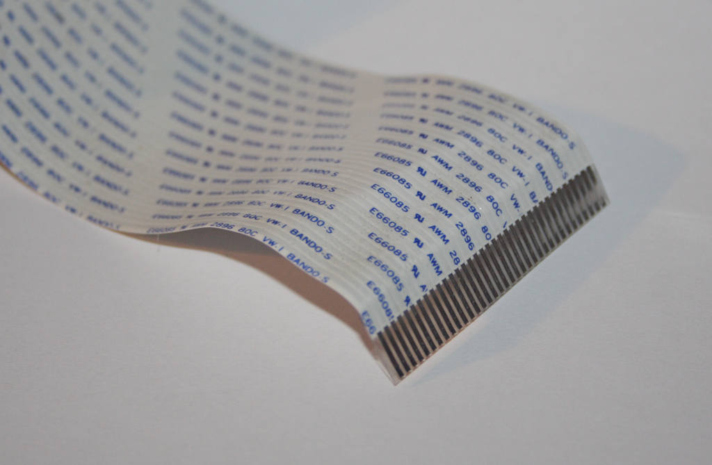 A length of multiple conductor Flat Flex Cable